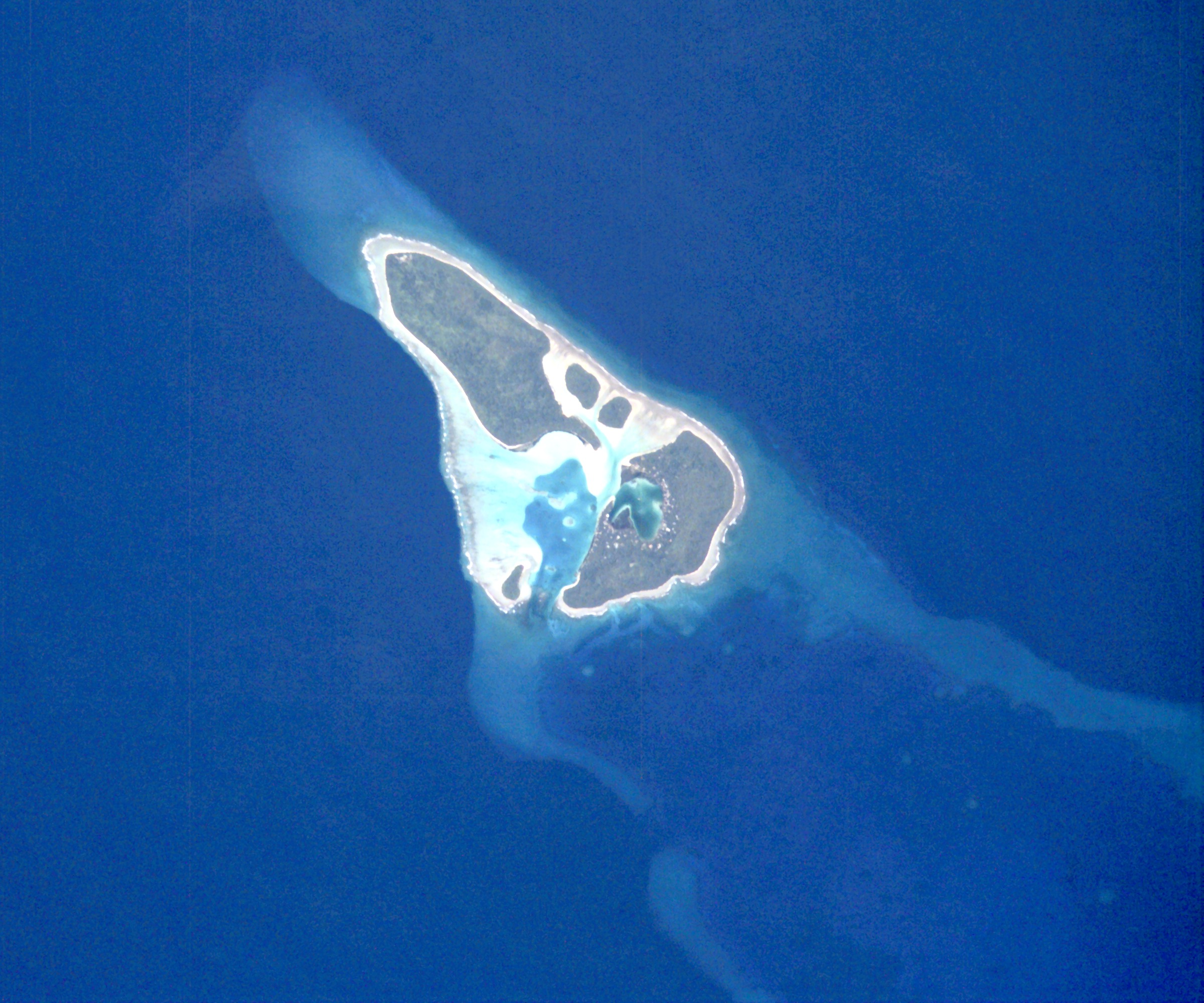 NASA astronaut image of Puluwat Atoll, Chuuk State, Federated States of Micronesia